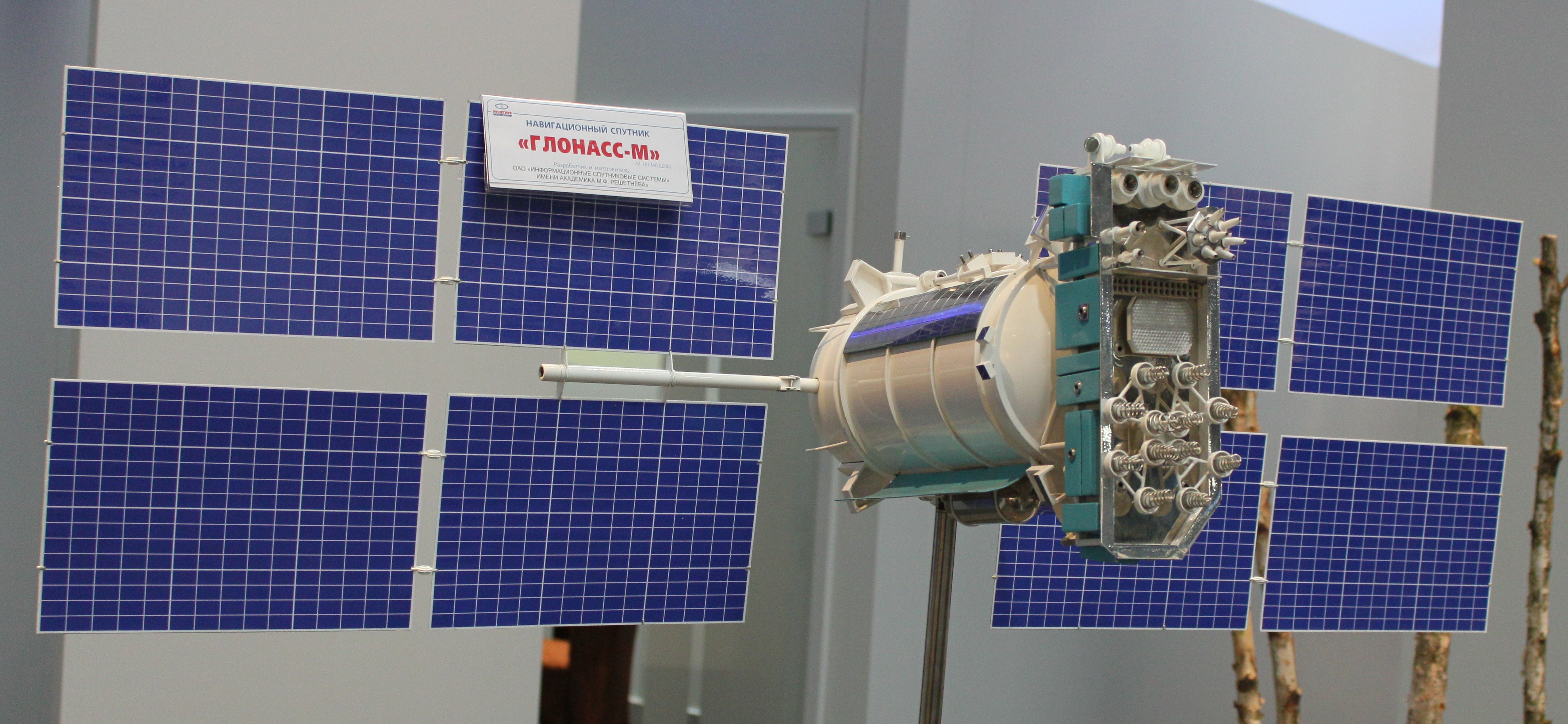 Model of Glonass-M satellite at CeBIT 2011. This is a crop of file